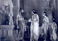 Ayodhyecha Raja, 1932, first Marathi language film, India.